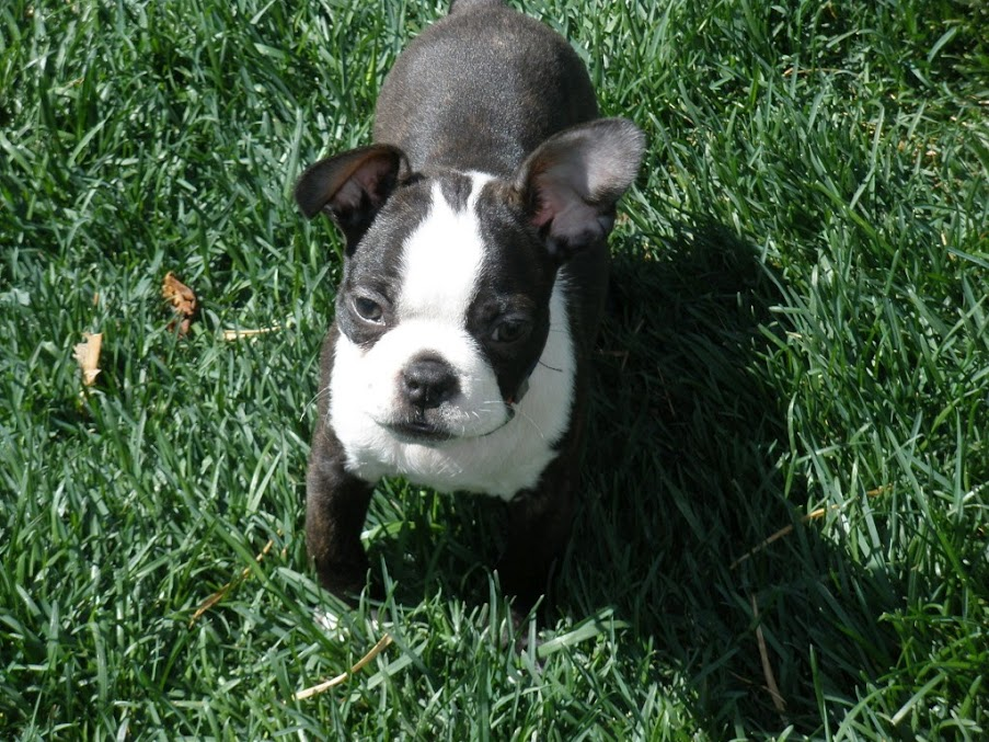 3 Month old Boston Terrier (named Zeus) from early May 2010 in Revere, Massachusetts